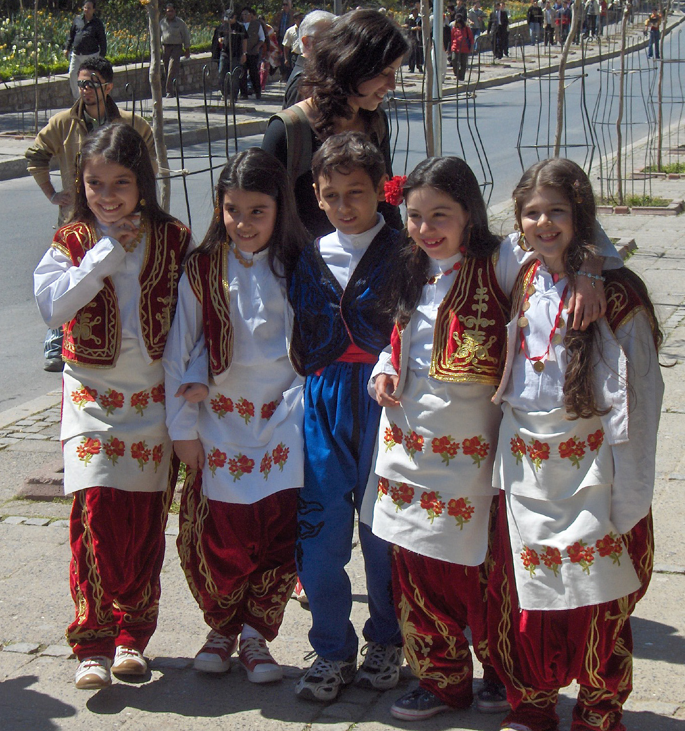 Children in traditional dress; Istanbul, Turkey